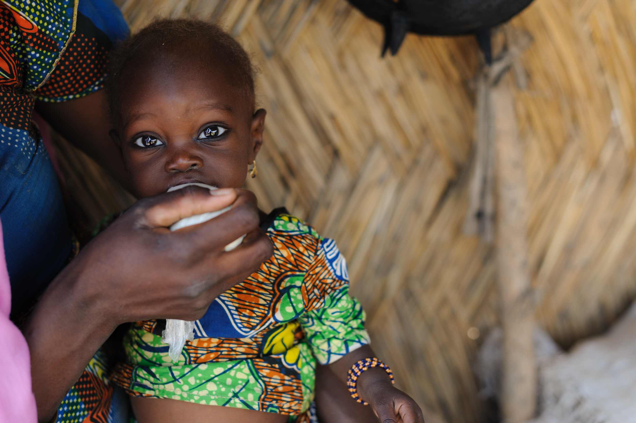 Copyright: Nyani Quarmyne/Save the Children One year-old Koursia Mahamadou is a beneficiary of the Save the Children feeding program in Yekoua in the Zinder region of Niger. Her parents say she was severely malnourished, but has gained a great deal of weight since commencing weekly visits to the feeding centre at the age of eight months. After a poor harvest, her family are living day-to-day, subsisting on a low nutritional-value millet-based diet. Koursia's father used to migrate to Nigeria to work and return with money to feed the family, but he is presently at home, fearful of returning to Nigeria because of the unrest caused by Boko Haram. Koursia is drinking a simple porridge of millet flour and milk, which is a typical lunch for she and her mother.